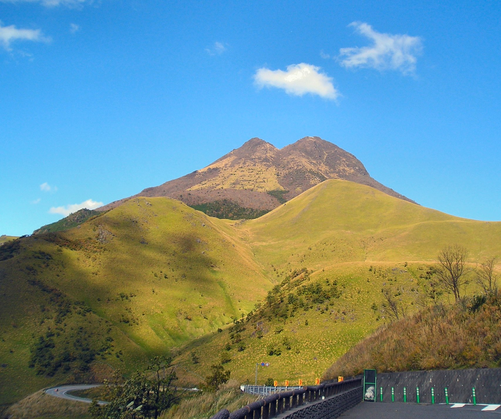 Mount Yufu panorama from Sagiridai view point.